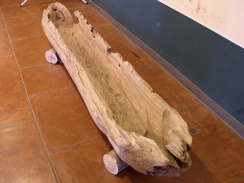 Prehistoric Native American dugout canoe on display at the Winterville Mounds onsite museum near Greenville, Mississippi.